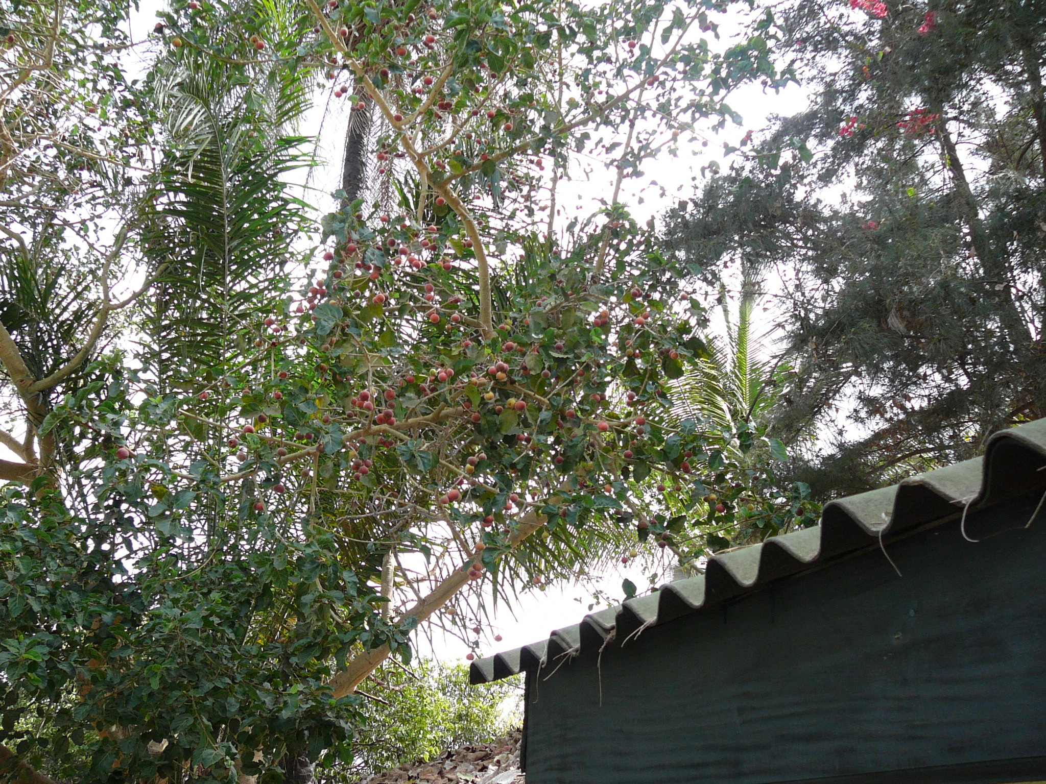 Sycamore Fig, fig-mulberry